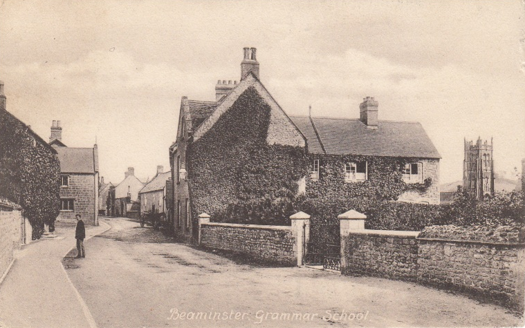 Photograph of Beaminster Grammar School, at Beaminster, Dorset